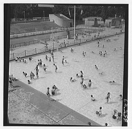 Title: Betsy Head Play Center. Abstract/medium: Gottscho-Schleisner Collection (Library of Congress) Physical description: 1 negative